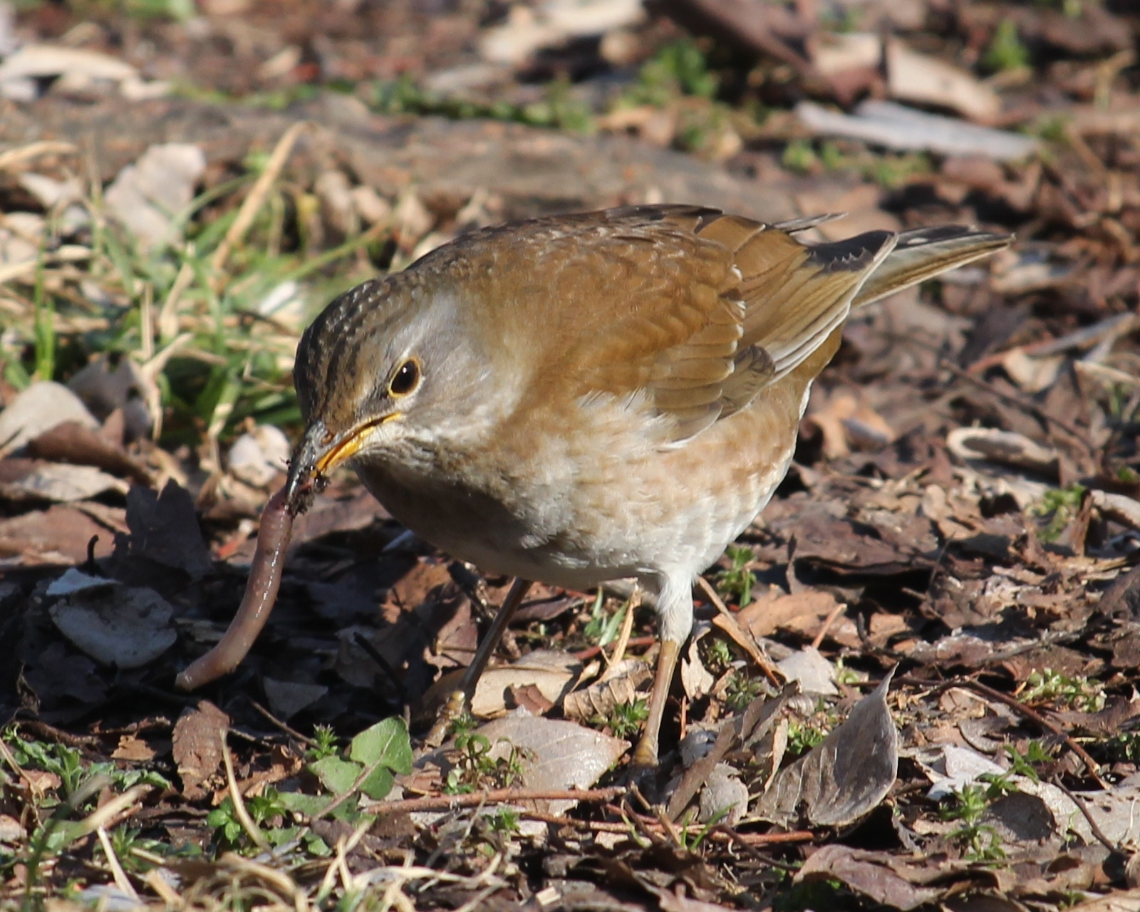 Pale Thrush (Turdus pallidus) eating Earthworm in Aichi prefecture, Japan.